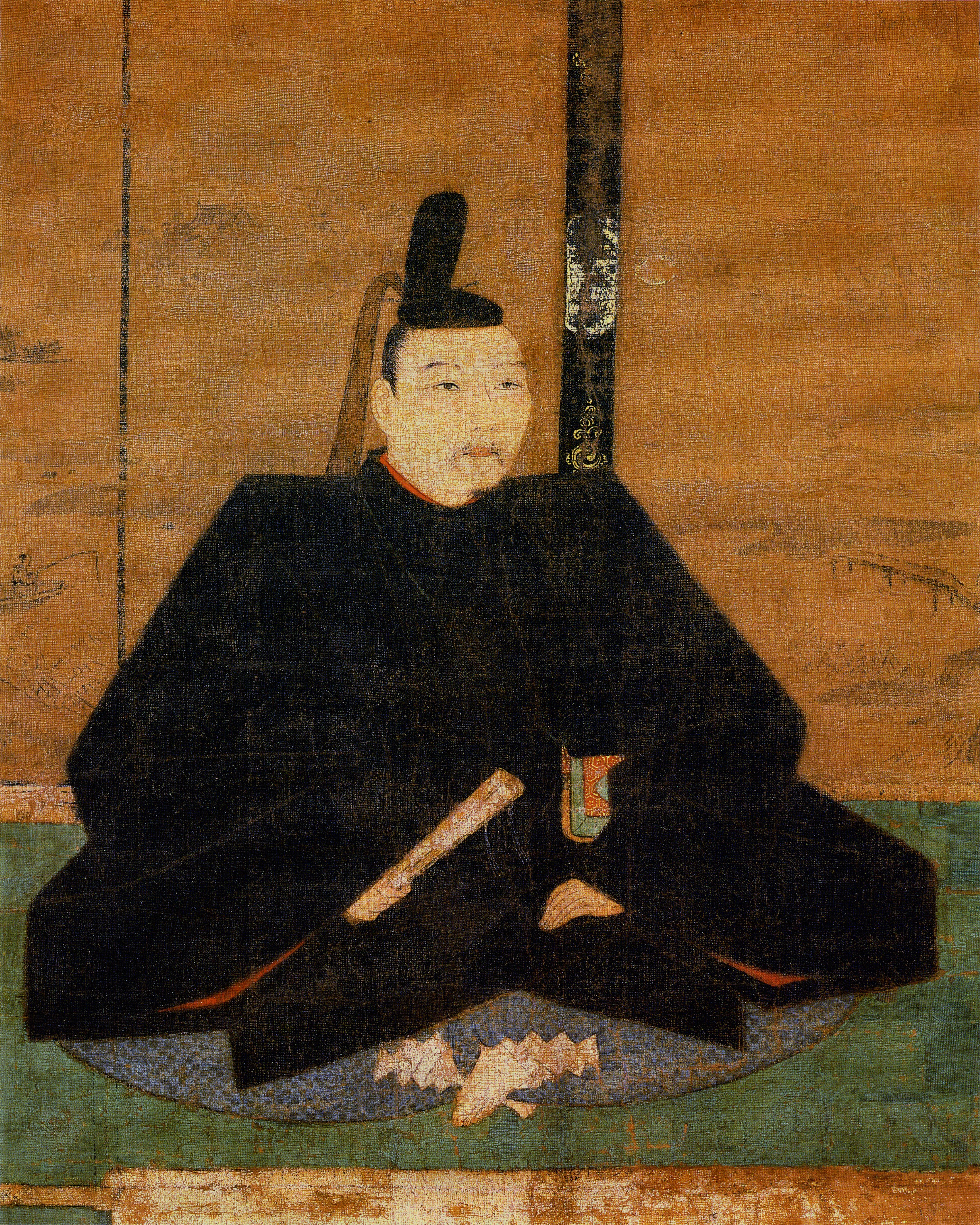 Portrait said to be of Ashikaga Yoshimasa (detail)